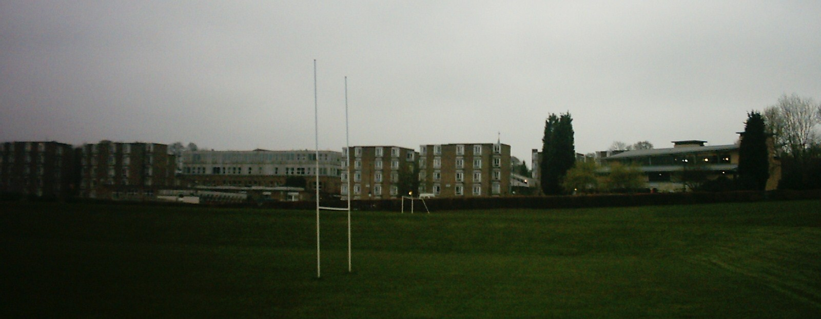 The Leeds Trinity and All Saints Campus in Horsforth, Leeds. Taken on the evening of the 16th April 2009.